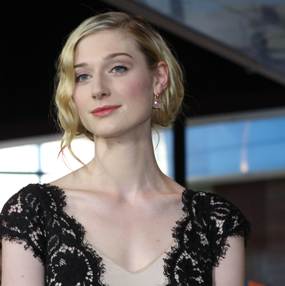 Elizabeth Debicki at the A Few Best Men premiere in Sydney